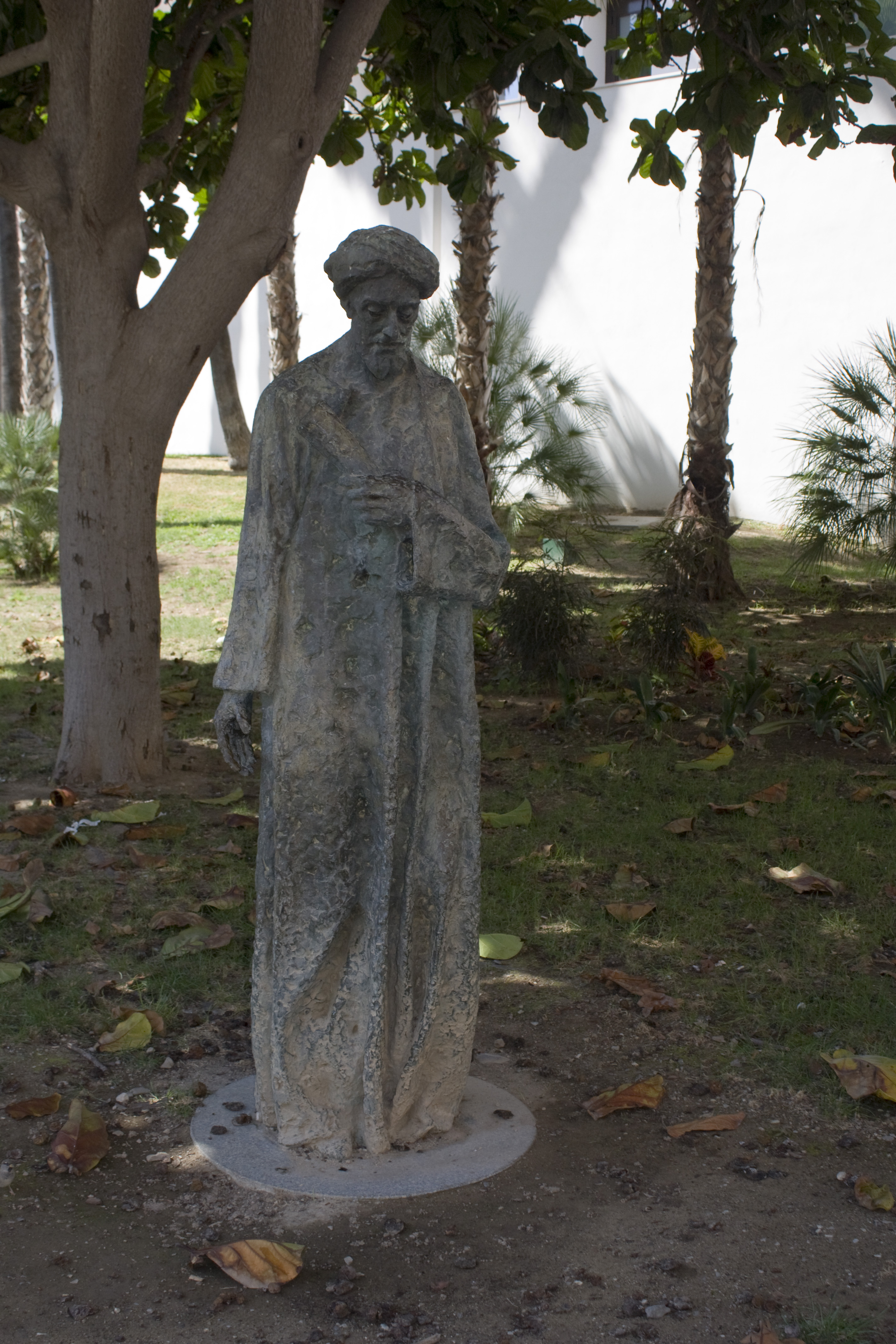 Al Malaqui, standing, a book in his hand, is shown teaching his philosophy